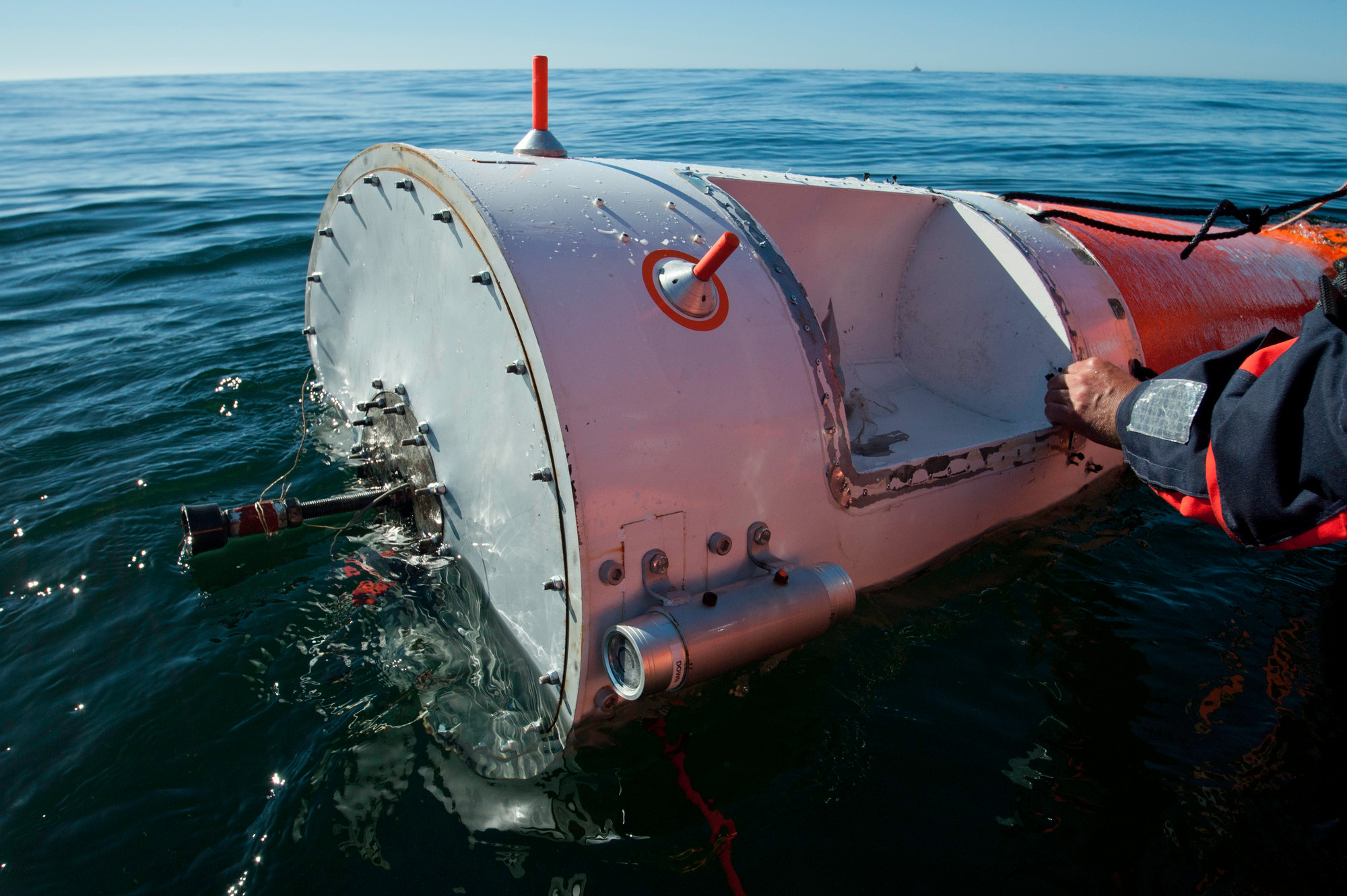 TYCHO BRAHE - recovered from the Baltic Sea